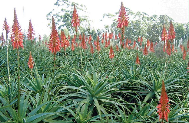 Aloe Arborescens Miller plants